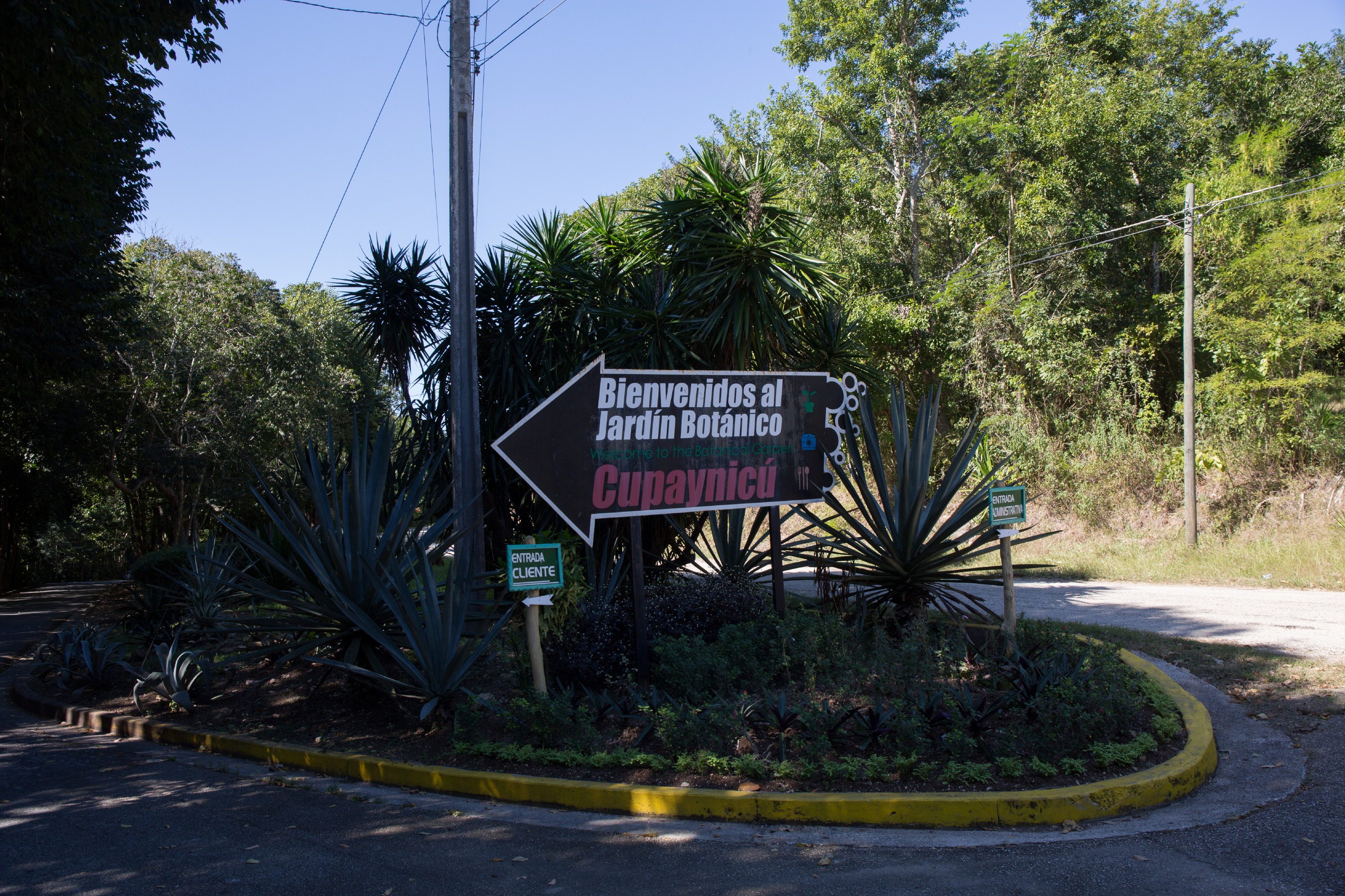 Entrance of the botanical garden Cupaynicú in Guisa, Cuba